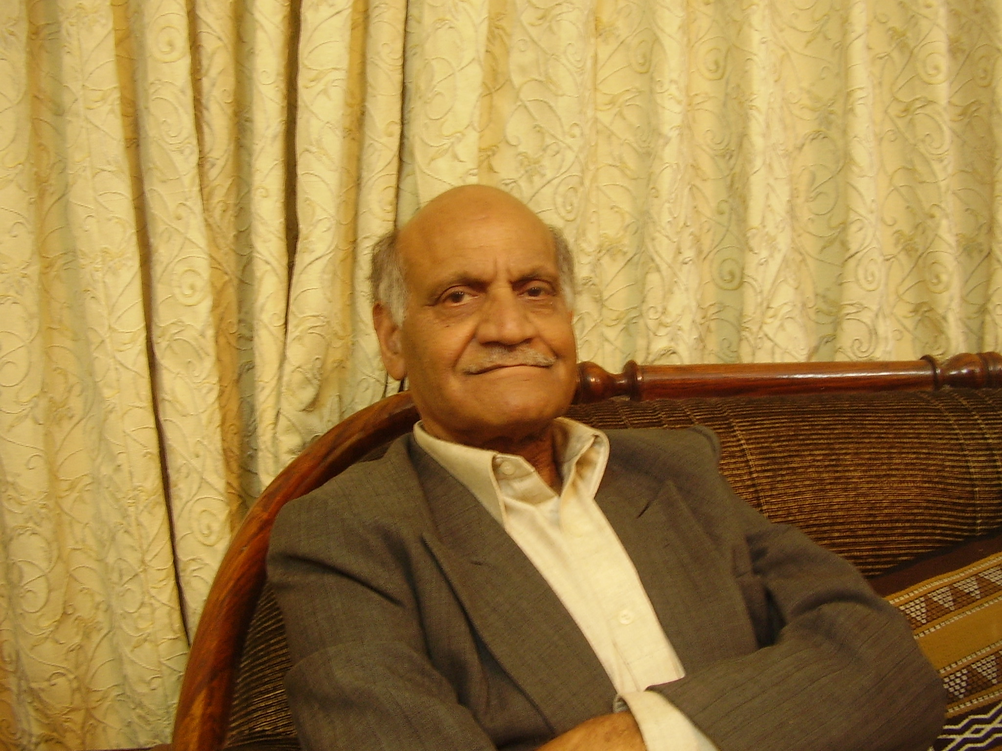 It is the portrait of Anwar Masood, famous poet of Punjabi, and Urdu.